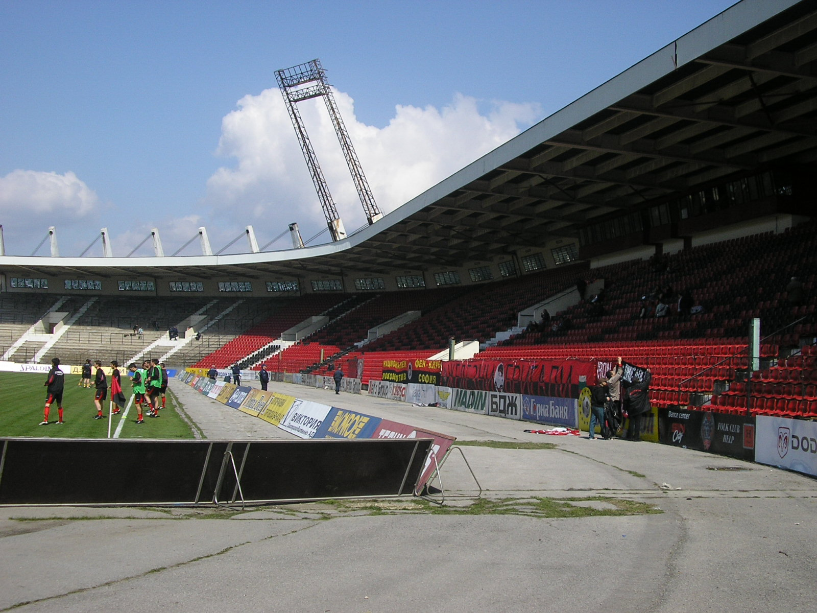 Stadion Lokomotiv, Sofia.